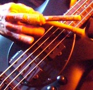 Photo taken by myself at the gig of the Tony Levin Band at Aschaffenburg on 8th May 2006 Photo shows Tony Levin playing his bass with funk fingers